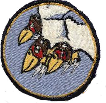 127th Fighter-Interceptor Squadron - Emblem